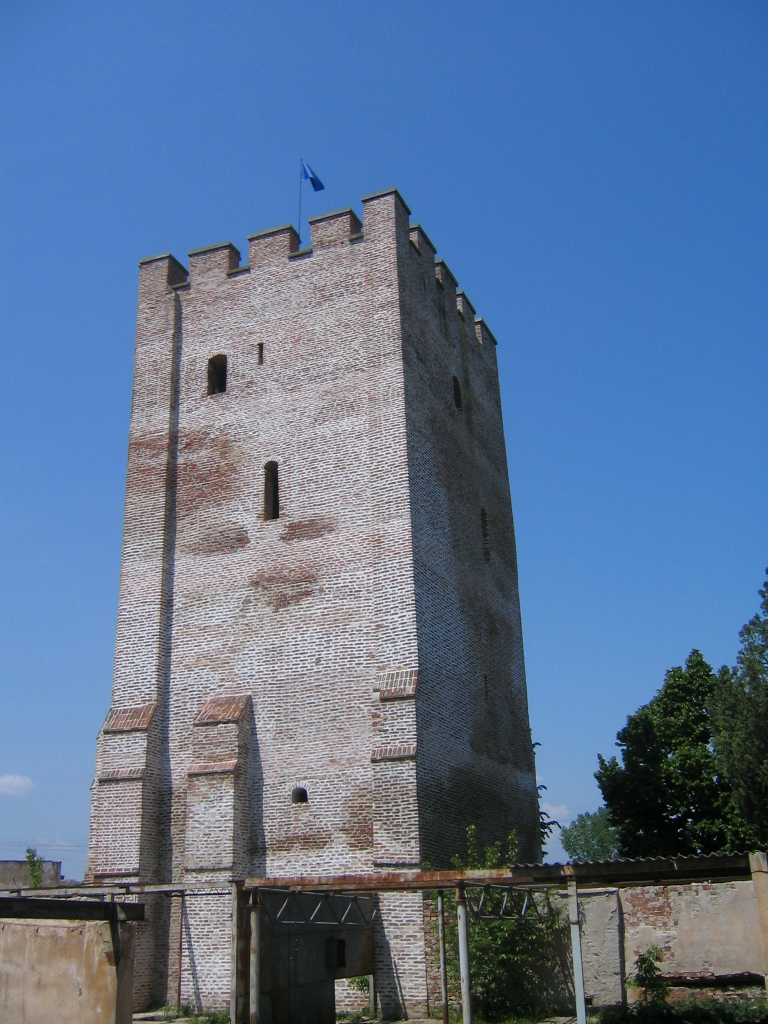 Tower in Ciacova